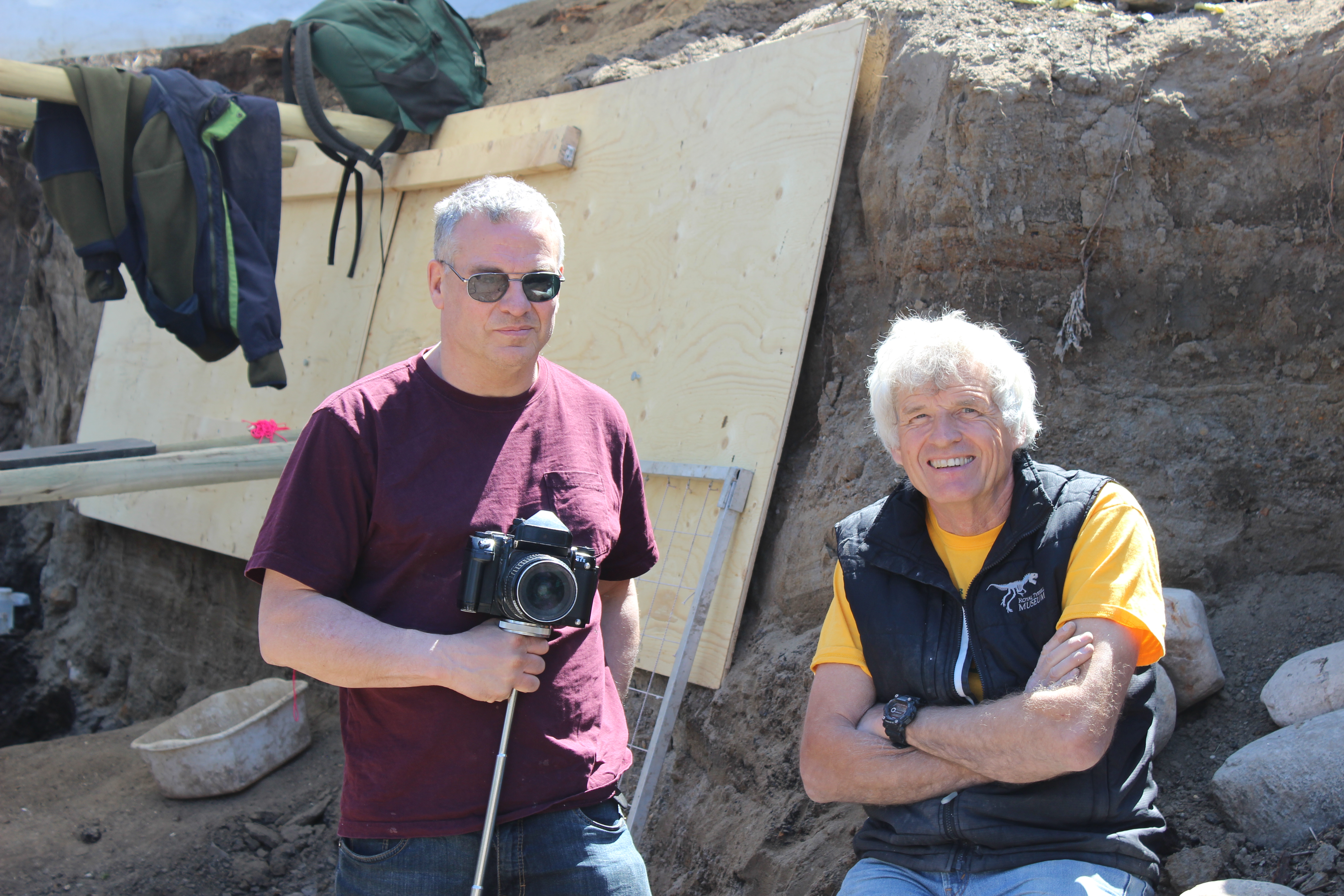 Jason Woodhead on left Philip Currie on right at Edmonton dinosour dig 2014